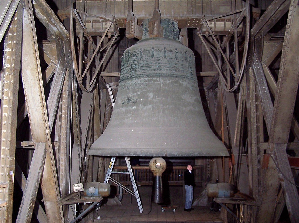 Cologne Cathedral Bell (Peterglocke)